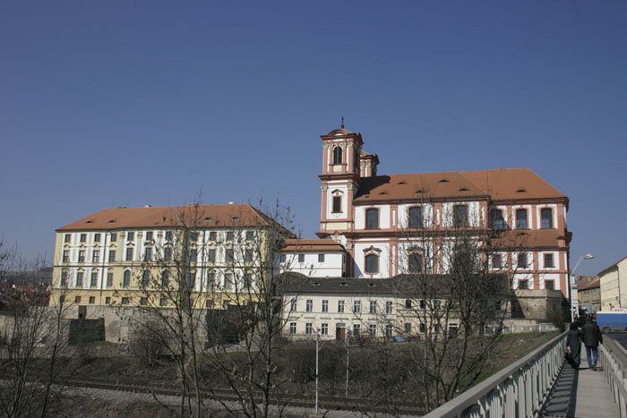 Annunciation church and Jesuite college by O. Broggio in Litoměřice, Czech Republic.